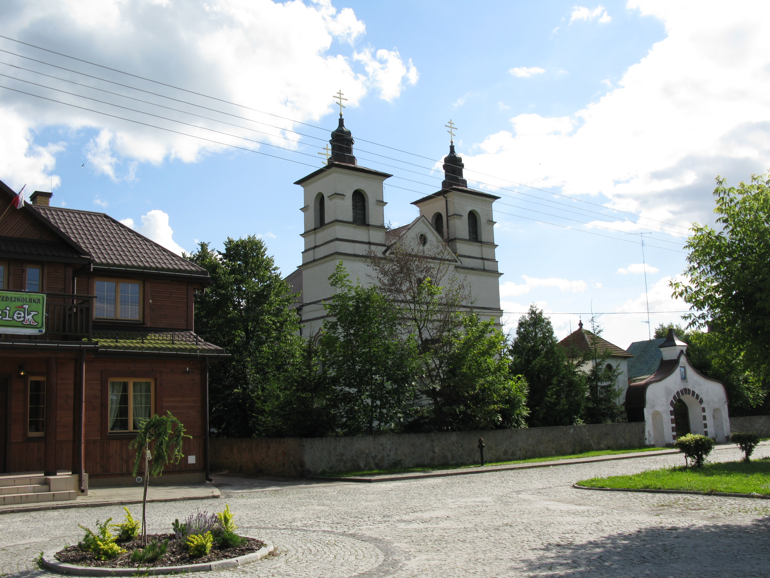 Church of the Dormition in Boćki (Podlaskie, Poland).